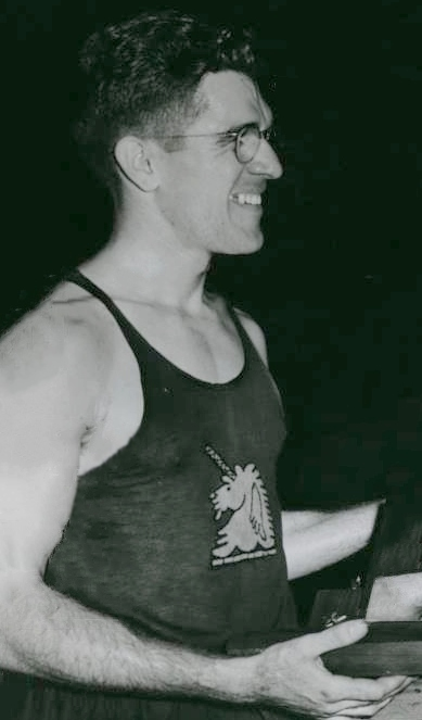 1944 Press Photo Gilbert Dodds & Rev James H O'Brien two mile run trophy